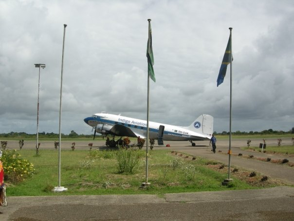 DC3 (model 1943) of INDIGO AVIATION before take-off at Karume airport in Chake-Chake (Pemba, Tansania), August 2009